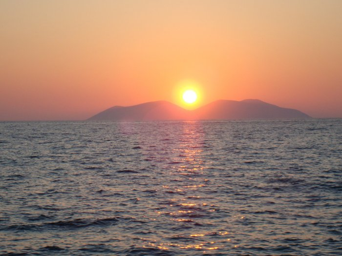 Vlora